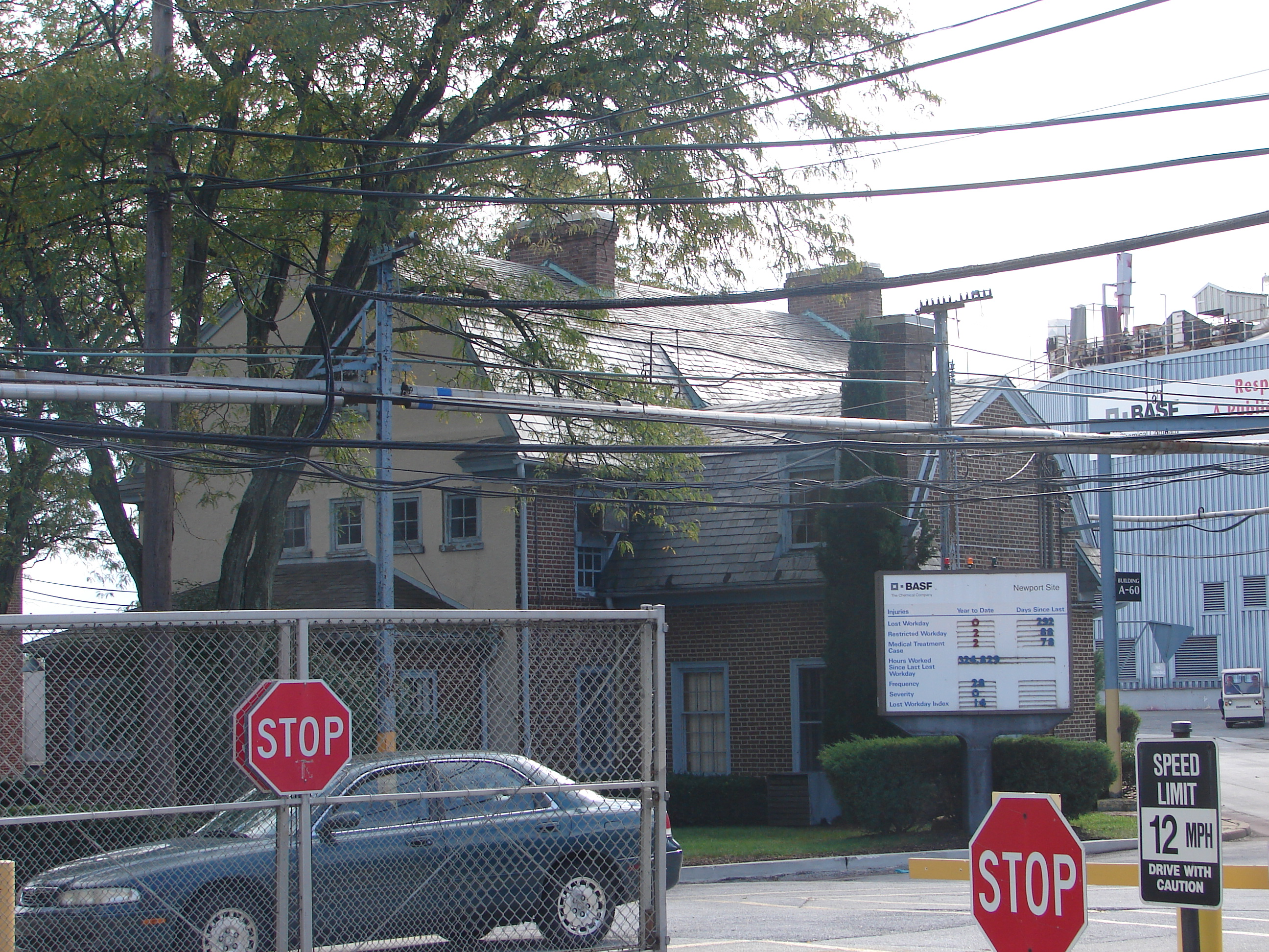 Joseph Tatnall House on the NRHP since July 14, 1993. On Western side of S. James St. near Christiana Creek, in Christiana Hundred, Newport, Delaware. Center of building built c. 1750, then expanded within 50 years. Major overhaul in 1915, when it started to be used as offices for the chemical plant that surrounds it now. DuPont BASF. Call ahead if you want to go inside! Sometimes inaccurately called the "Oliver Evans House" after Newport's favorite son.